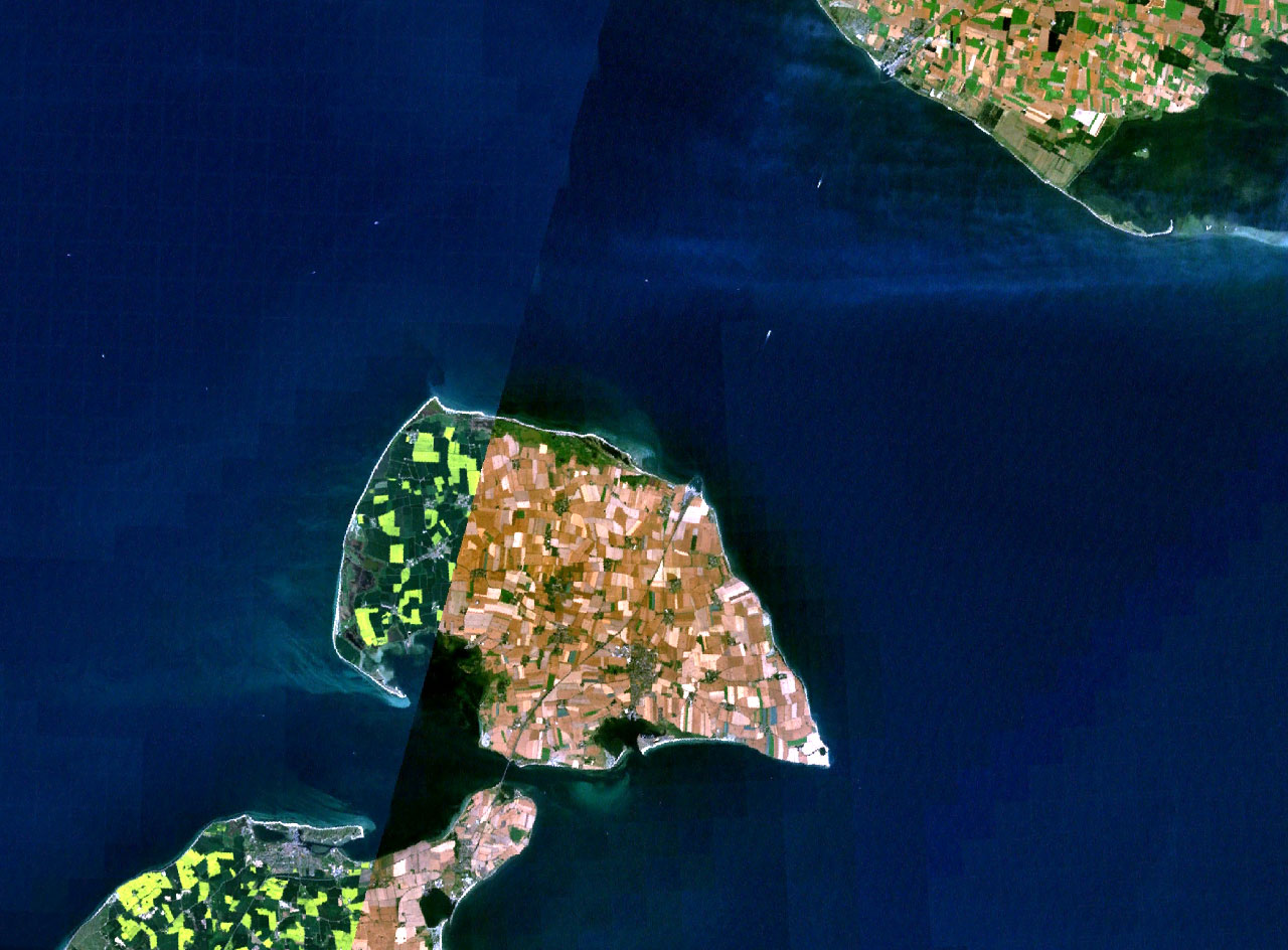 Satellite images of the island of Fehmarn, Germany showing ferry line "Vogelfluglinie" (Puttgarden - Rødby)